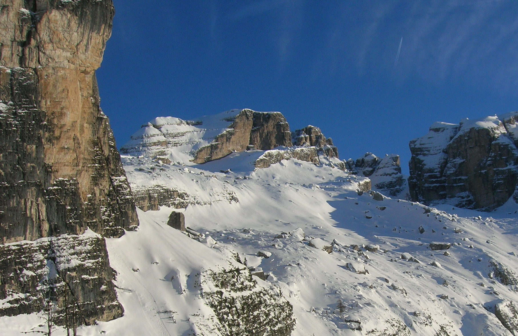 Corna Rossa (far left), Cima del Grostè (left), Cima Falkner (center), Castello di Vallesinella (right), from NW